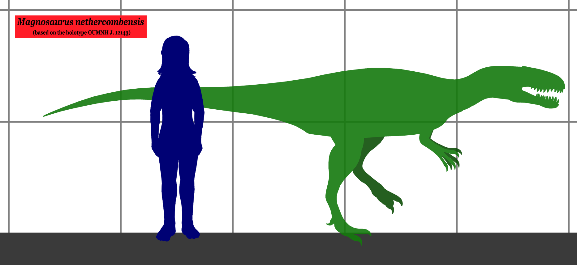 Estimated size of the theropod dinosaur Magnosaurus nethercombensis, made from the corresponding skeletal diagram. based on the holotype OUMNH J. 12143.[1] References ↑ Benson R.B.J. (2010), "The osteology of Magnosaurus nethercombensis (Dinosauria, Theropoda) from the Bajocian (Middle Jurassic) of the United Kingdom and a re-examination of the oldest records of tetanurans", Journal of Systematic Paleontology 8(1): p. 131-146.